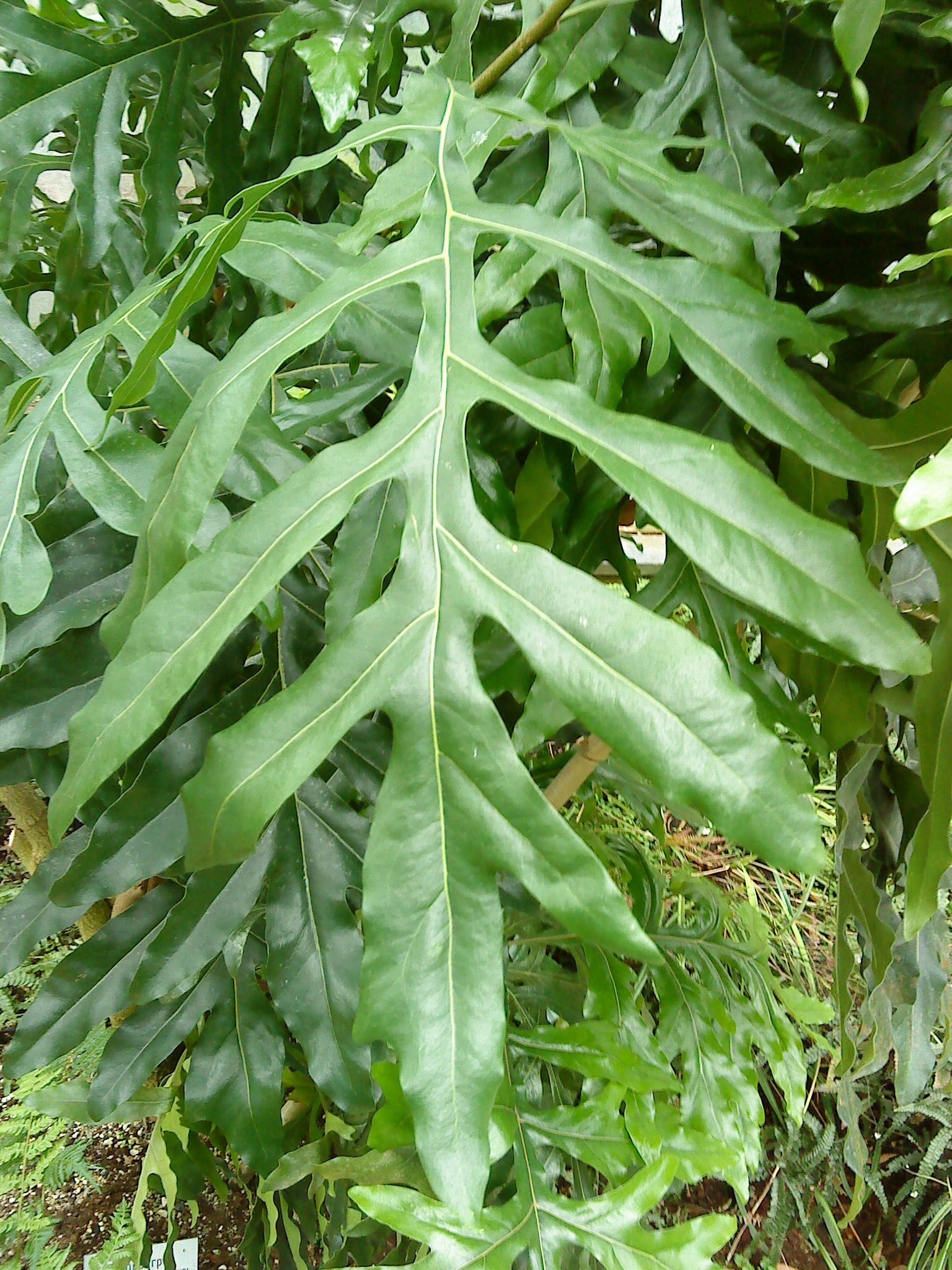 Firewheel Tree (Stenocarpus sinuatus)